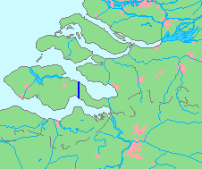 Location of a waterway (river/canal) in the Netherlends